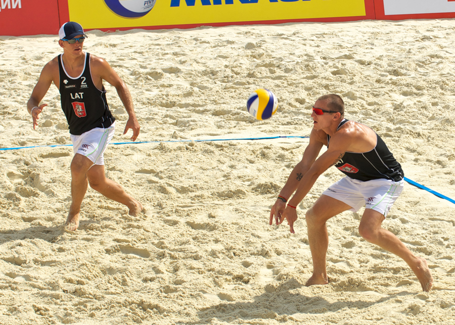 Grand Slam Moscow 2012